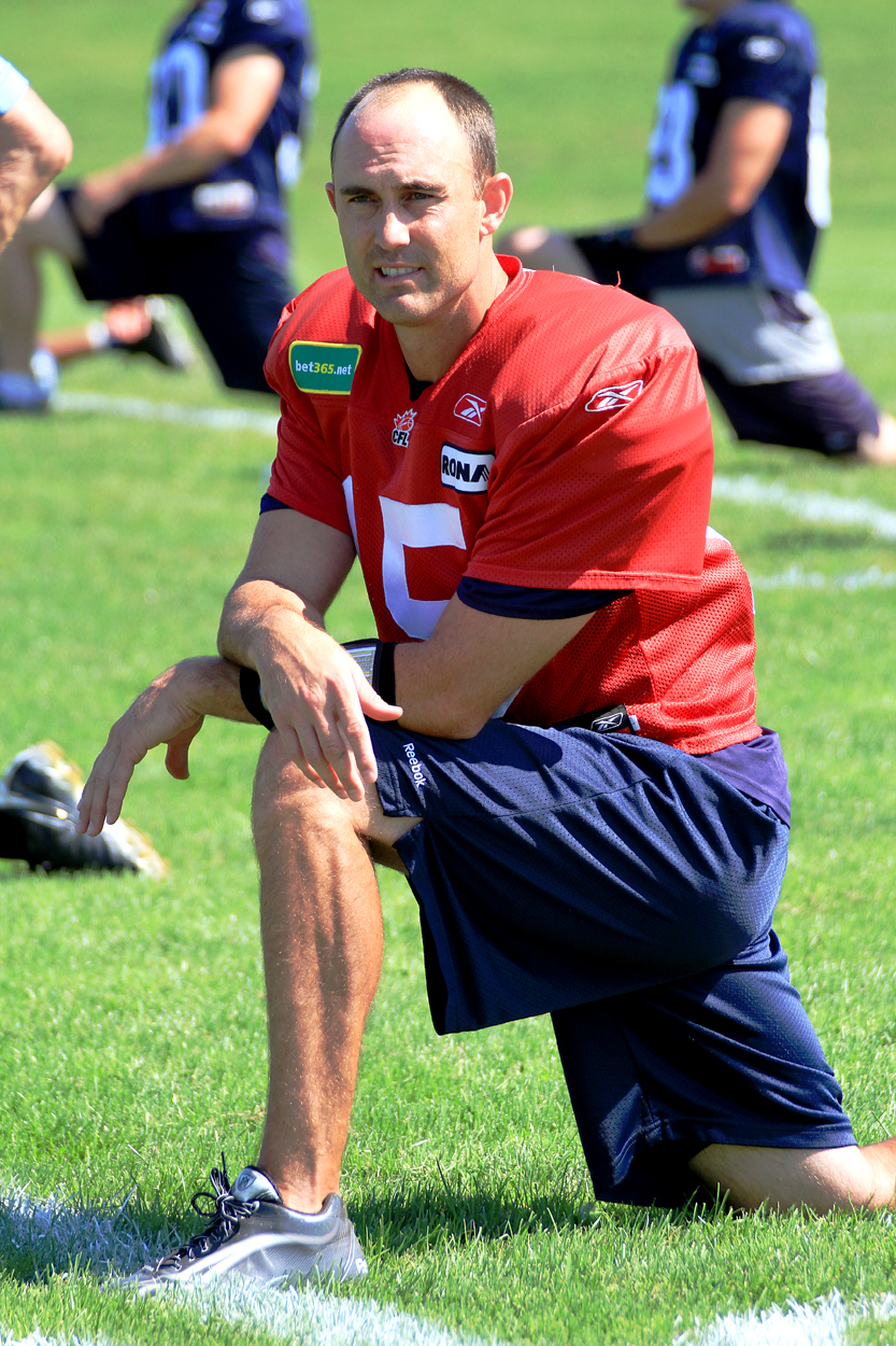 Ricky Ray, quarterback of the Toronto Argonauts Football Club.